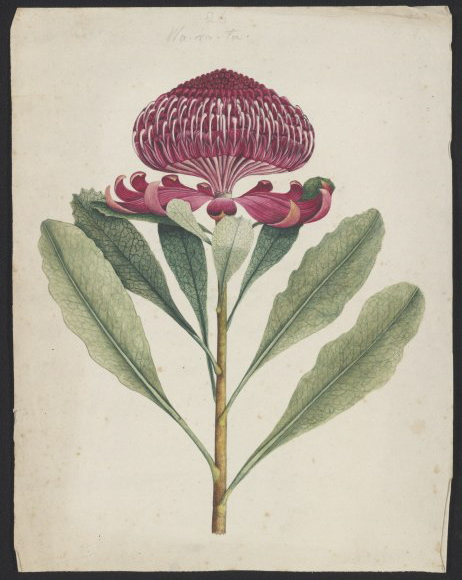 Raper, George, Wa-ra-ta [waratah (Telopea speciosissima)] [picture] [1789?] 1 drawing : watercolour ; 40 x 31.1 cm.